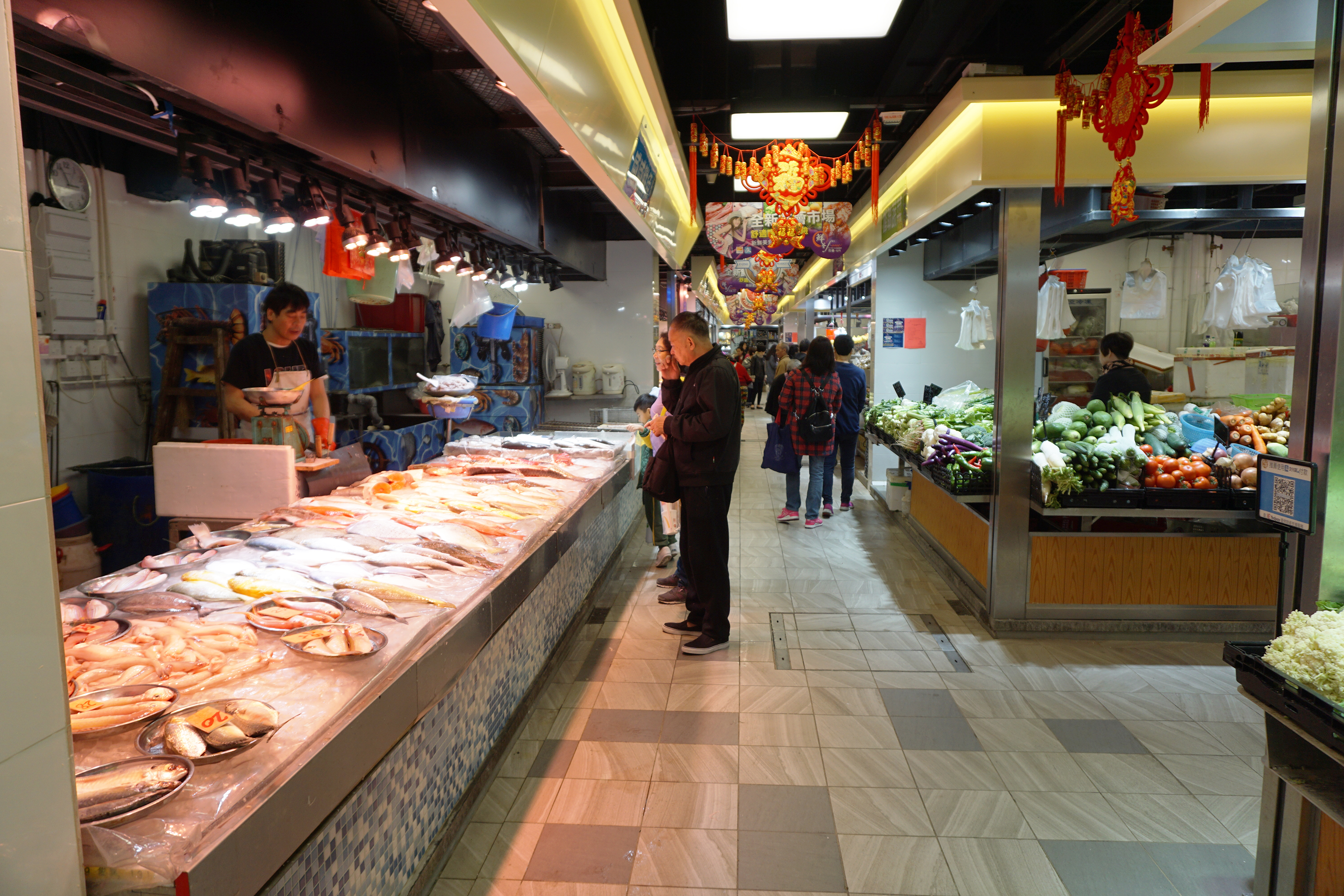 Fu Tai The Fresh One Market in Tuen Mun, Hong Kong.